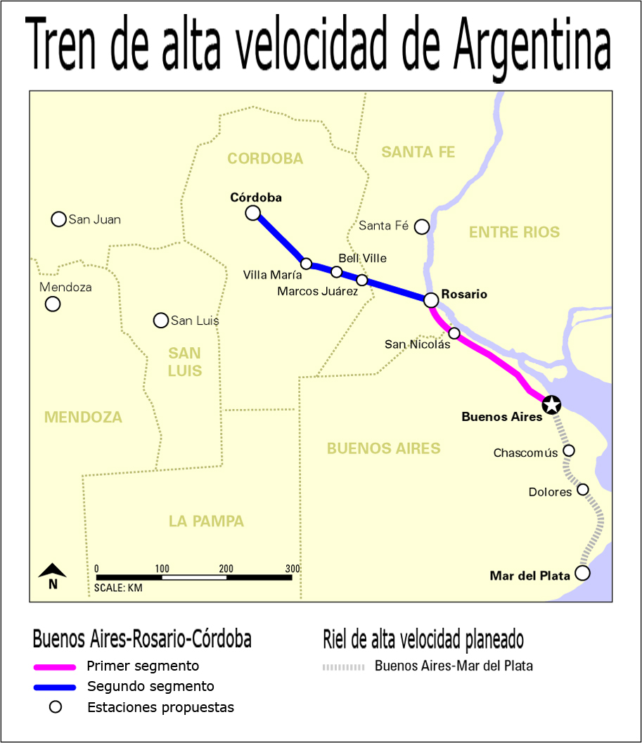 Map of Buenos Aires-Rosario-Córdoba high-speed railway. Schnellfahrstrecke - Buenos Aires-Rosario-Córdoba high-speed railway map 4.